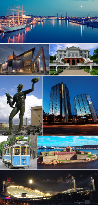 Montage of various Gothenburg images.